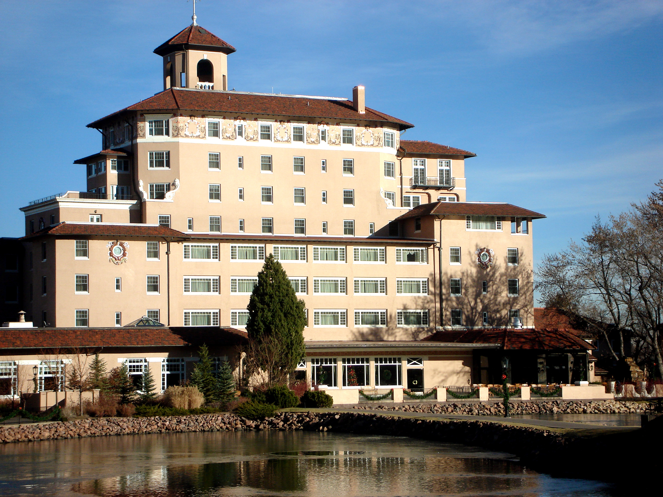 The Mediterranean Revival style Broadmoor Hotel, Colorado Springs, Colorado.